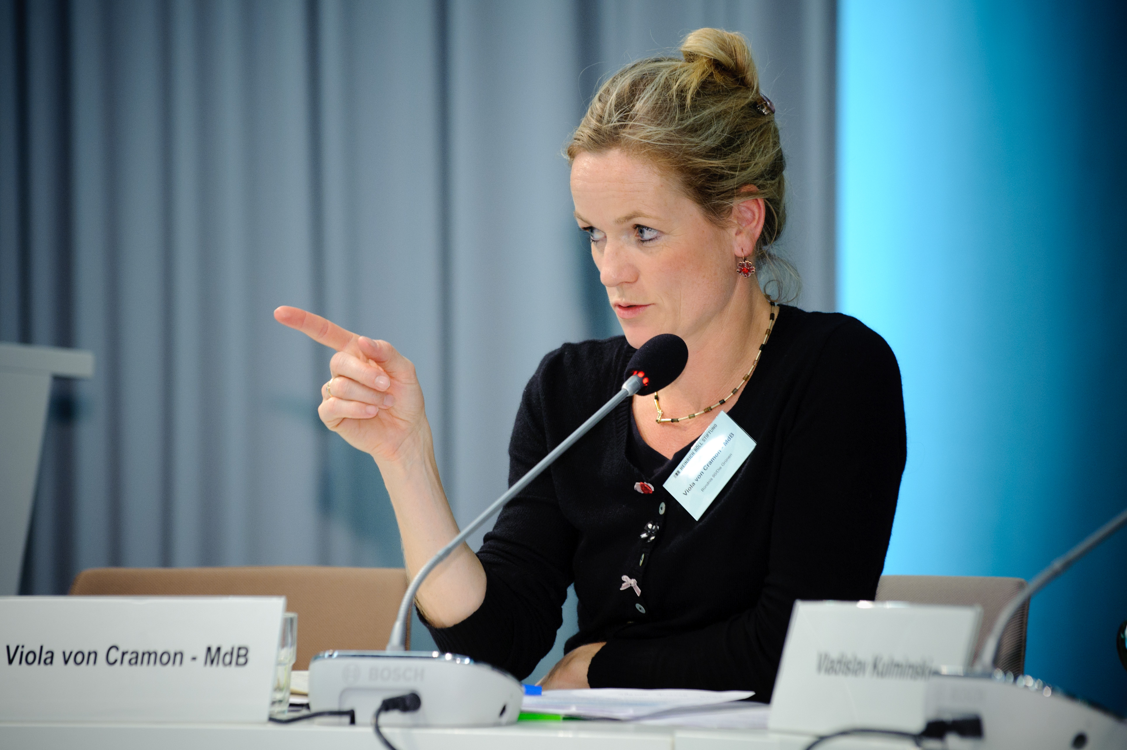 Foto: CC-BY-SA Stephan Röhl /